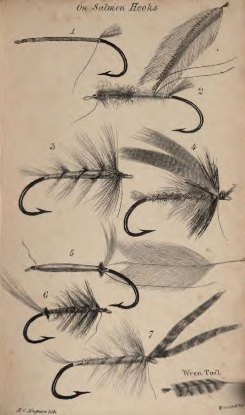 B&W Plate - On Salmon Hooks in William Blacker's Art of Fly Making, 1842